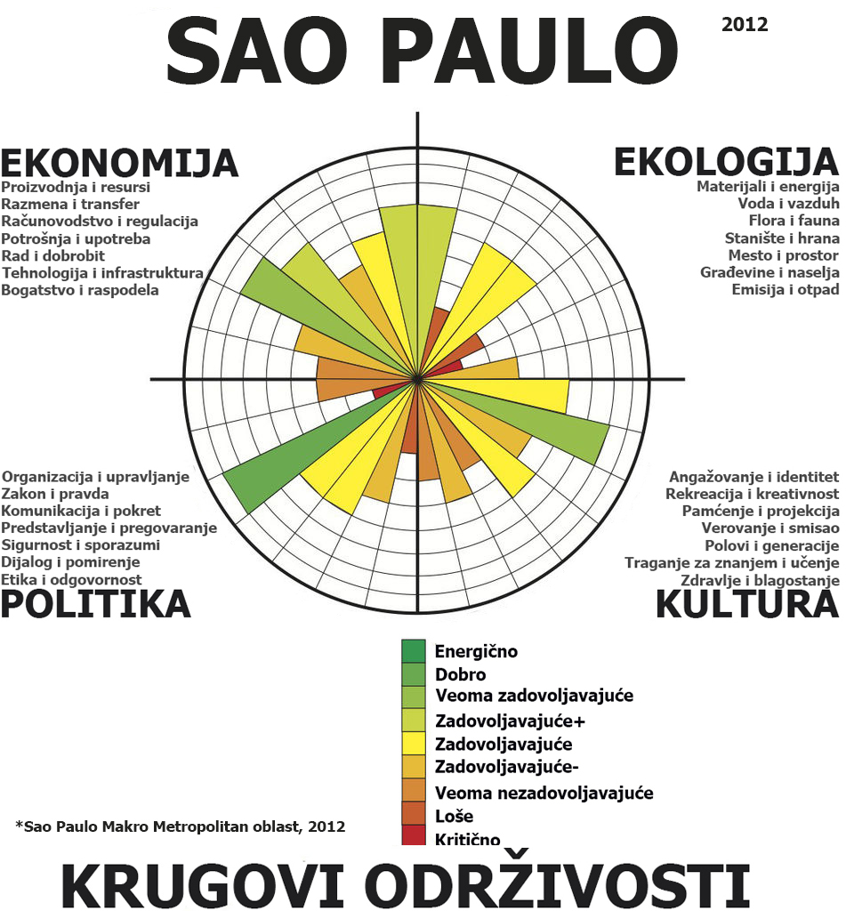 Profil Sao Paula, nivo 1, 2012.